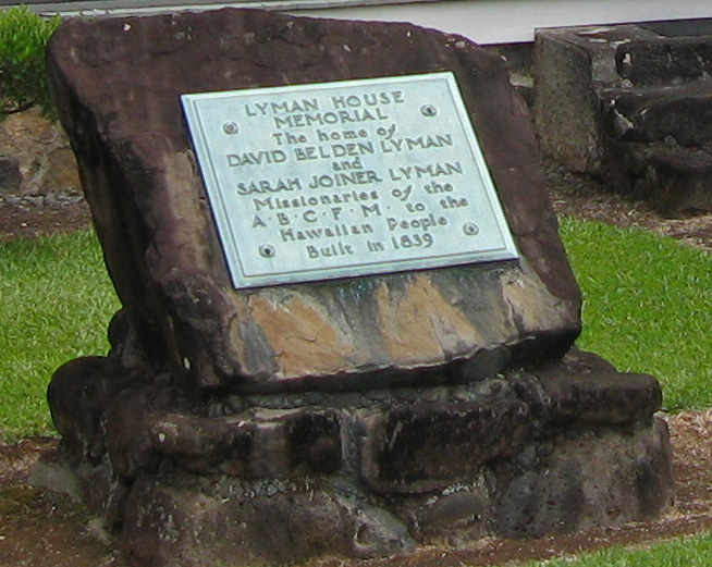 Plaque in front of the Lyman House Museum in Hilo, Hawaii. It was built around 1839 for the early missionary family of Sarah Joiner and David Belden Lyman.